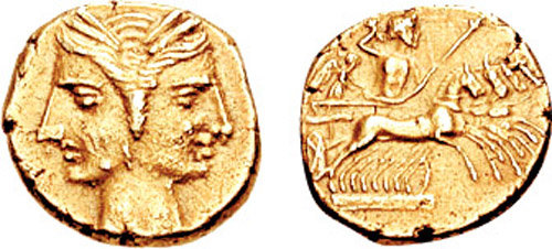 Bruttium, Carthaginian Occupation. Circa 216-211 BC. EL 3/8 Shekel (2.79 g). Janiform female heads, wearing wreaths of grain Zeus, holding thunderbolt and sceptre, standing in quadriga right, driven by Nike. Robinson, Punic pg. 40 (Capua); Jenkins & Lewis 487 (Capua); SNG ANS 146 (Capua); HN Italy 2013. VF, obverse die rust. Rare. This coinage, previously attributed to Capua in Campania, has been conclusively reattributed to the Carthaginians in Bruttium under Hannibal (see M.H. Crawford, "Provenances, Attributions, and Chronology of Some Early Italian Coinages," CH IX (2002), pg. 274, and HN Italy). While it is probable that the mint was located in Bruttium, it has been suggested that the coins may have been struck in Carthage and transported to South Italy for Hannibal's use (see G.K. Jenkins, Studi per Laura Breglia, Parte I, Generalia-Numismatica Greca. Bollettino di Numismatica, Supplemento al No. 4, 1987, pp. 223-4).